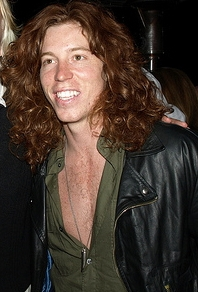 Shaun White at the Virgin America OC Launch.